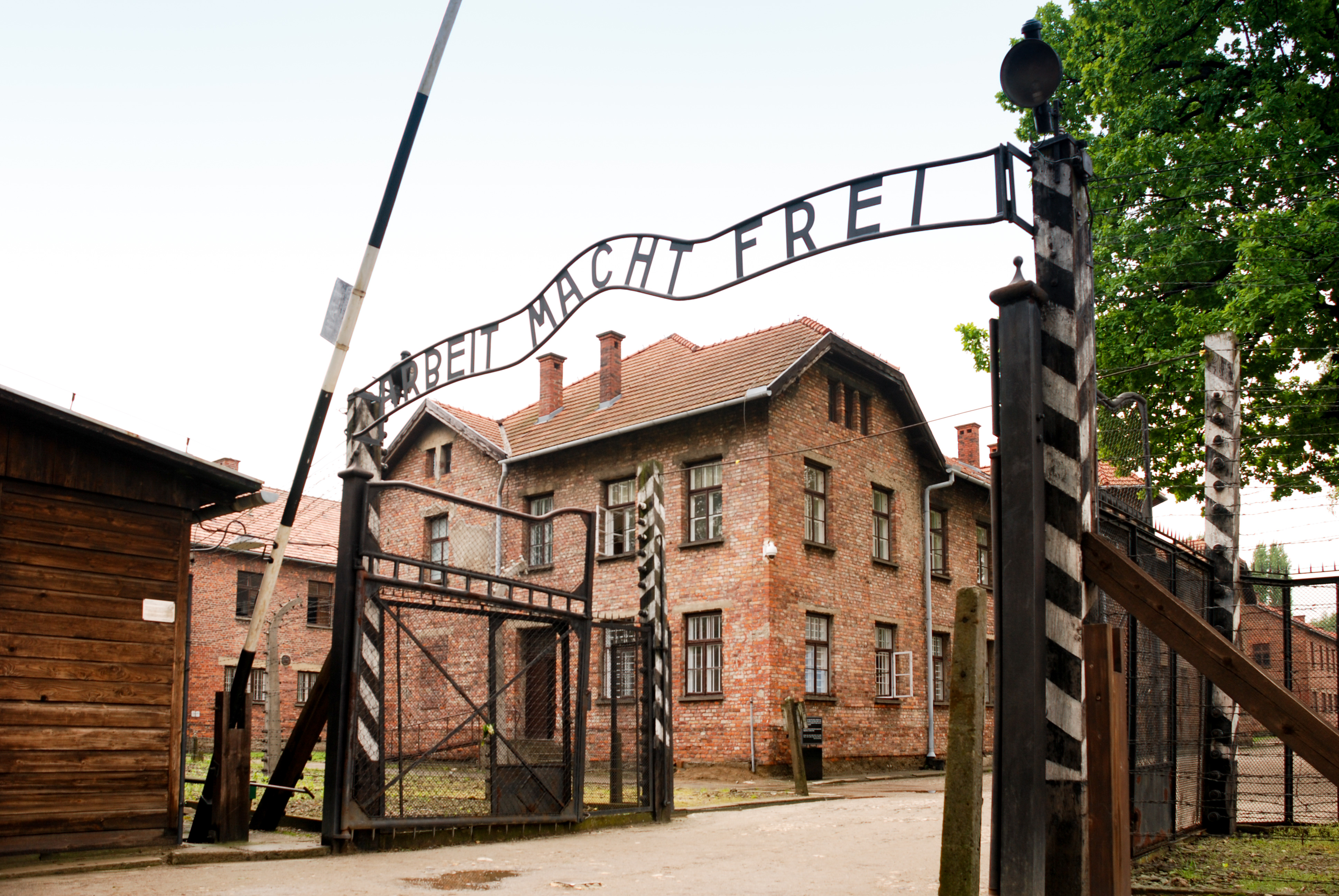 German concentration camp, Auschwitz I (the main camp), Poland (1940-1945). Visible old Austrian and later Polish Army barracks dated before 1939.